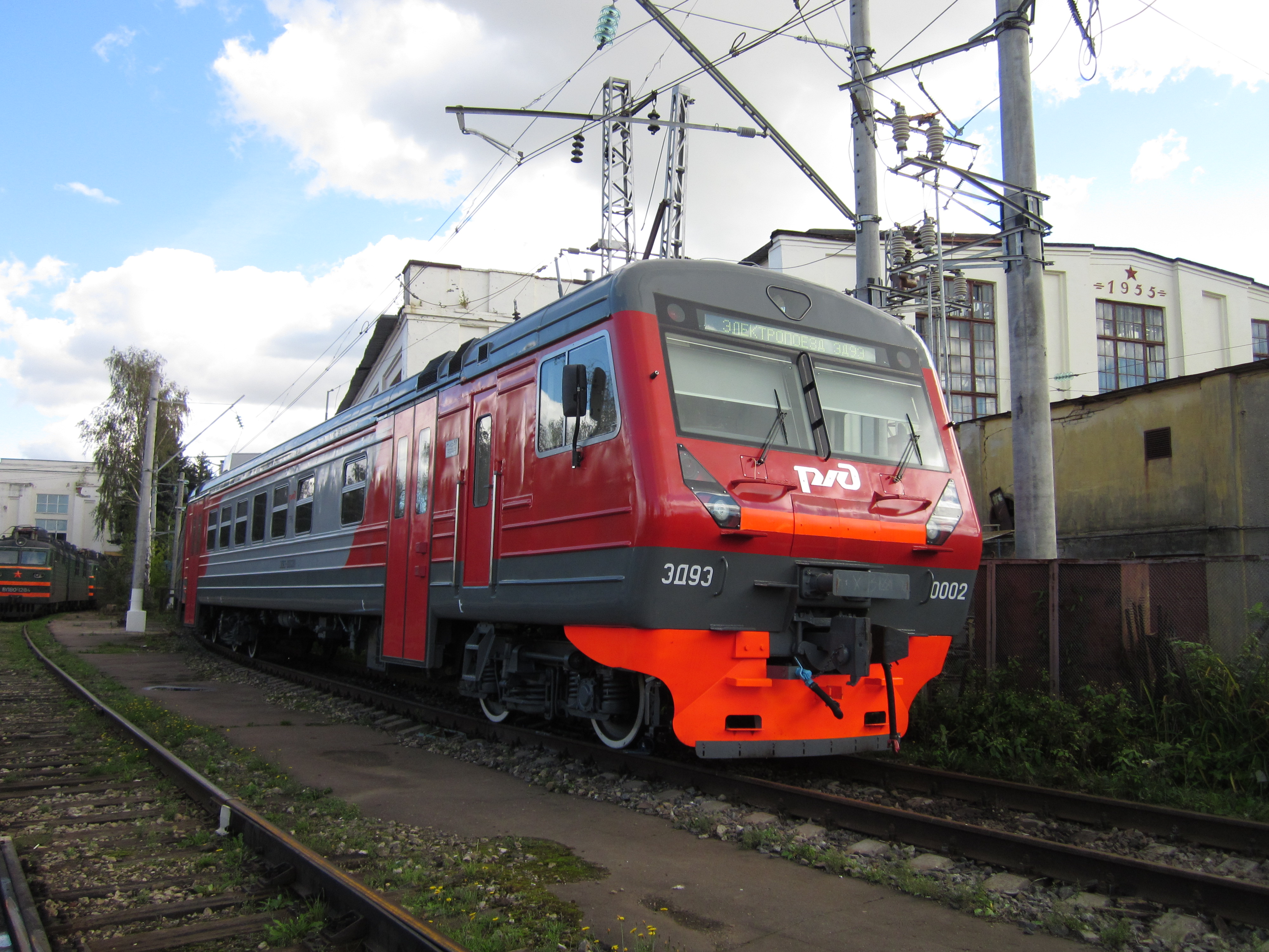 Electric multiple unit ED9E-0002 at train test ring in Scherbinka.